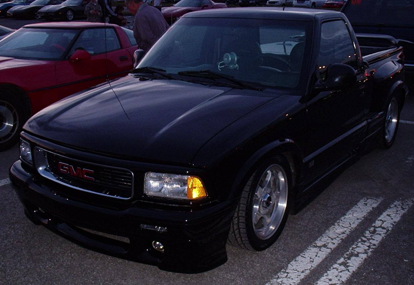 GMC Sonoma photographed in Laval, Quebec, Canada at Les chauds vendredis 2010.